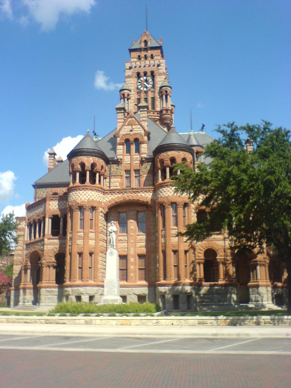 The darkly gothic Ellis County Courthouse in Waxahachie is considered by some to be among the best in the state. Photo by Danny Burton, 07/15/07.